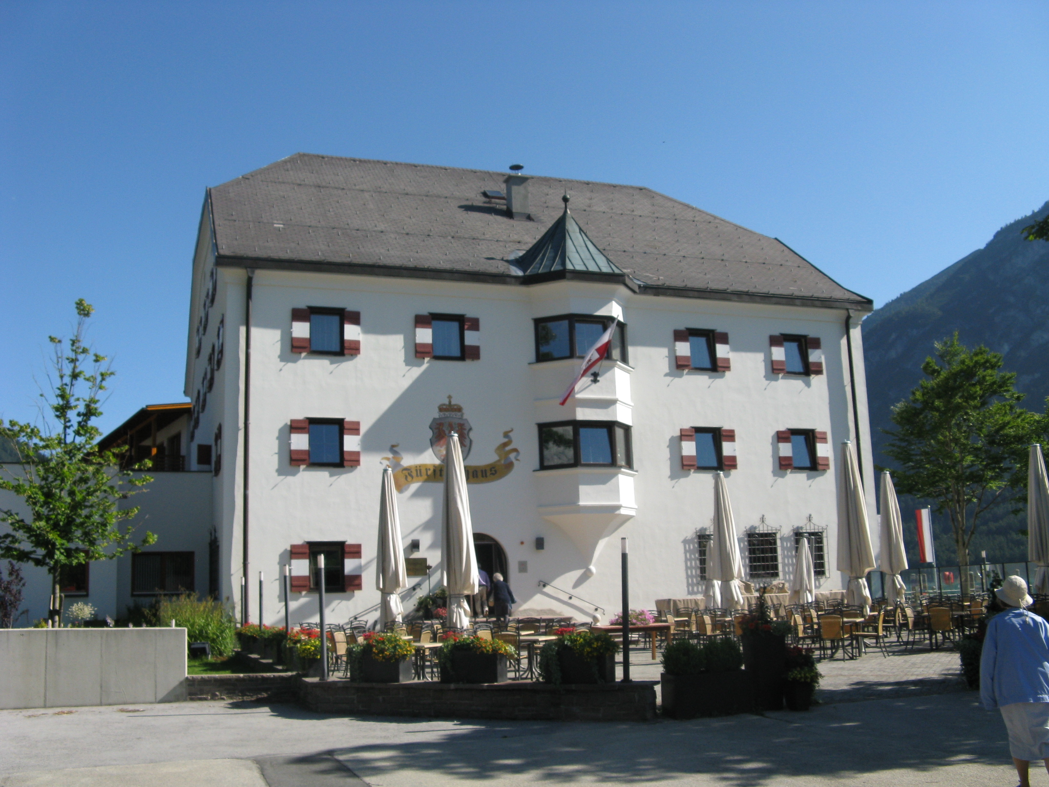 "Fürstenhaus" (Emperor Maximilian's former residence, modified to a hotel), Pertisau/Achensee, Tyrol/Austria